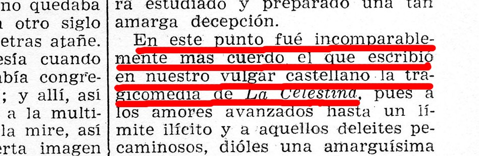 Portion of Juan Luis Vives Book (1948) showing nuestro vulgar castellano